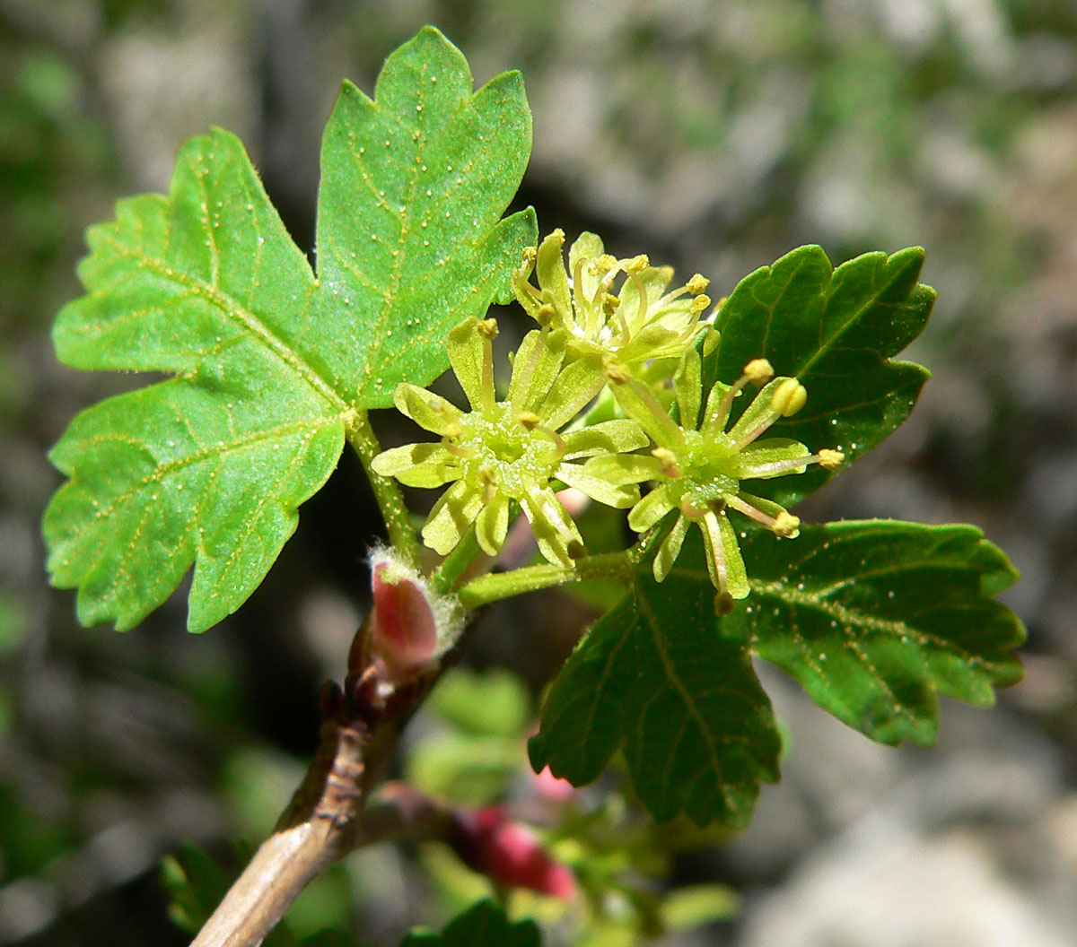 Acer glabrum var. diffusum alongside the upper Mary Jane Falls trail, Kyle Canyon, Spring Mountains, southern Nevada (elev. about 2600 m)